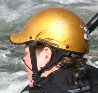 Playboater wearing a Strutter helmet in Pueblo, Colorado, USA